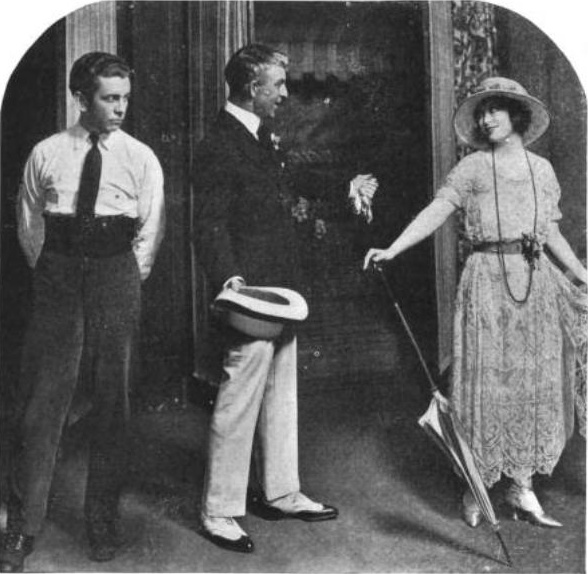 From left to right: Richard Barbee, Arthur Byron, and Margaret Lawrence in the stage production Transplanting Jean (1921)